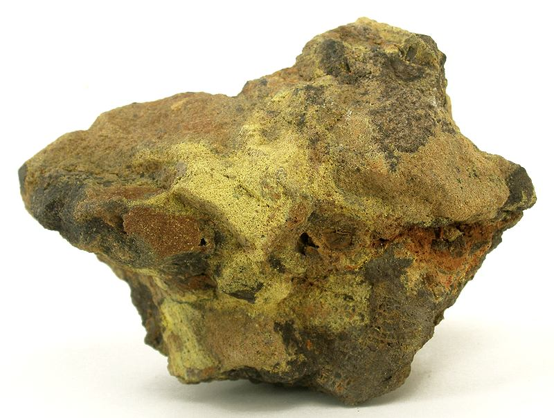 Carnotite, Vanoxite Locality: Uravan District, Montrose County, Colorado, USA (Locality at ) Size: small cabinet, 7.5 x 5.7 x 4.2 cm Vanoxite in Sandstone with Carnotite Vanoxite is a vanadium oxide with water that is, I think, the vanadium equivalent of rust or of rust-like mineral species we see commonly with iron and manganese. However, it seems fairly uncommon. Apparently because it does not crystallize, its IMA status is listed as Questionable/Doubtful as a species although that is a supposition. In any case, the material is present here as dark material in the matrix of carnotite (for which this is an excellent reference specimen). Ex. John White Collection.